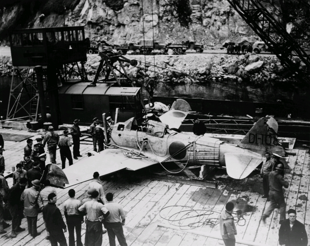 An Imperial Japanese Navy Zero fighter that crashed on Akutan Island, Alaska on June 4, 1942 is loaded onto a ship by U.S. military forces for shipment to Seattle, Washington in July 1942. The Zero was later used for intelligence purposes by the US Government.